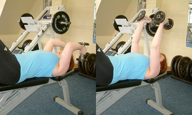 Thanks go to the model, Emily.